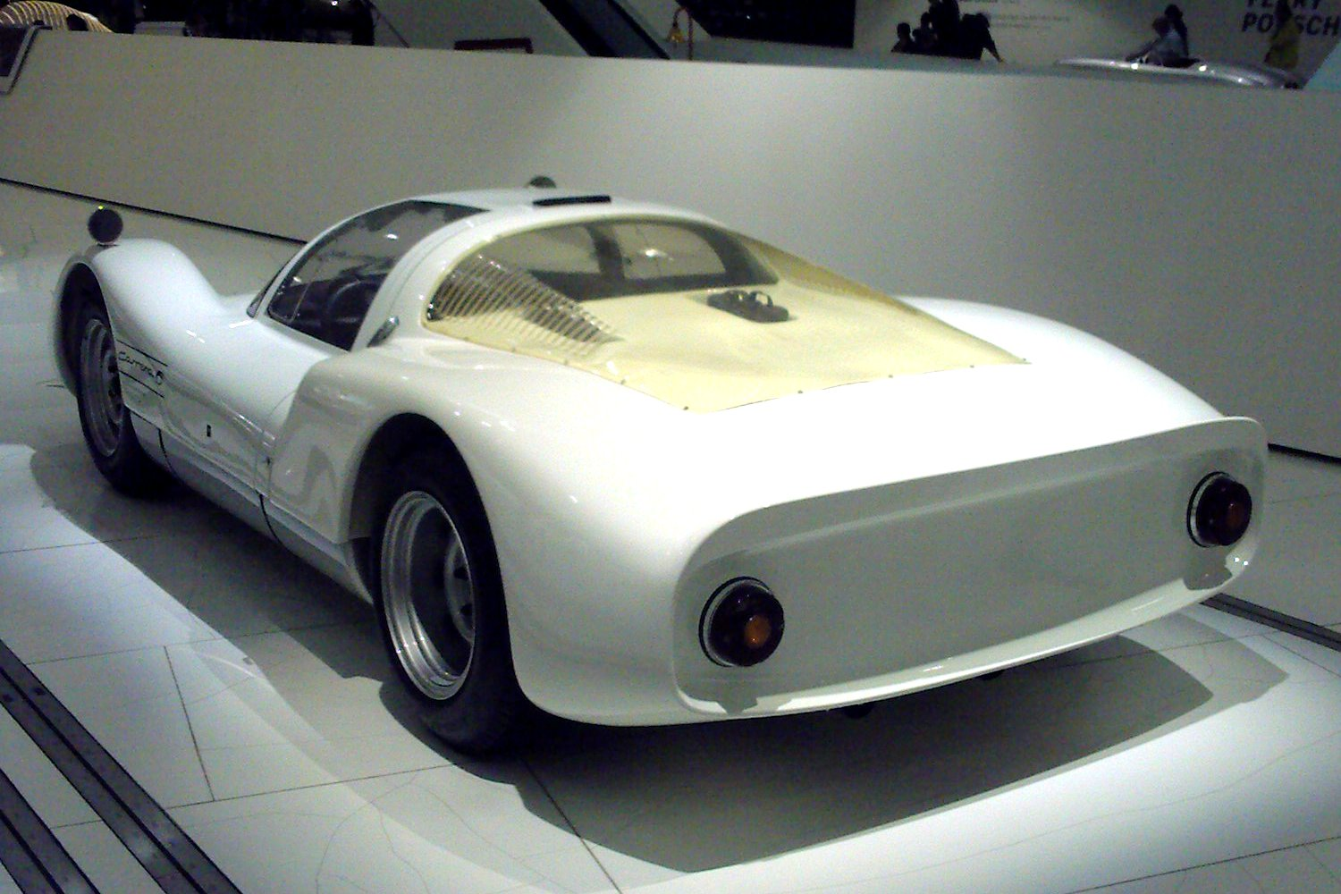 A Porsche 906 Carrera 6 at Porsche Museum in Zuffenhausen, Germany (back side)